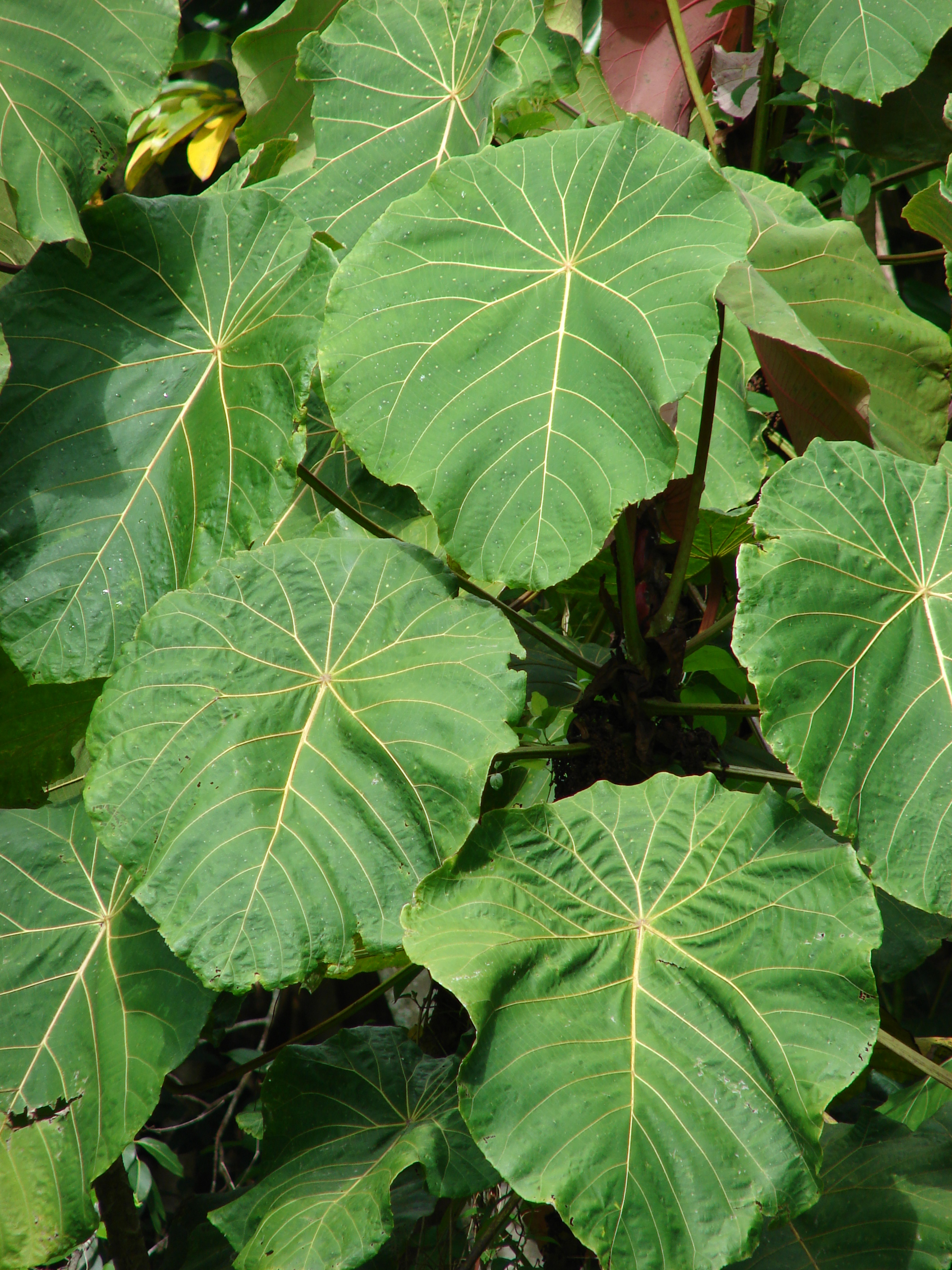 Macaranga mappa (leaves). Location: Oahu, Hoomaluhia Botanical Garden